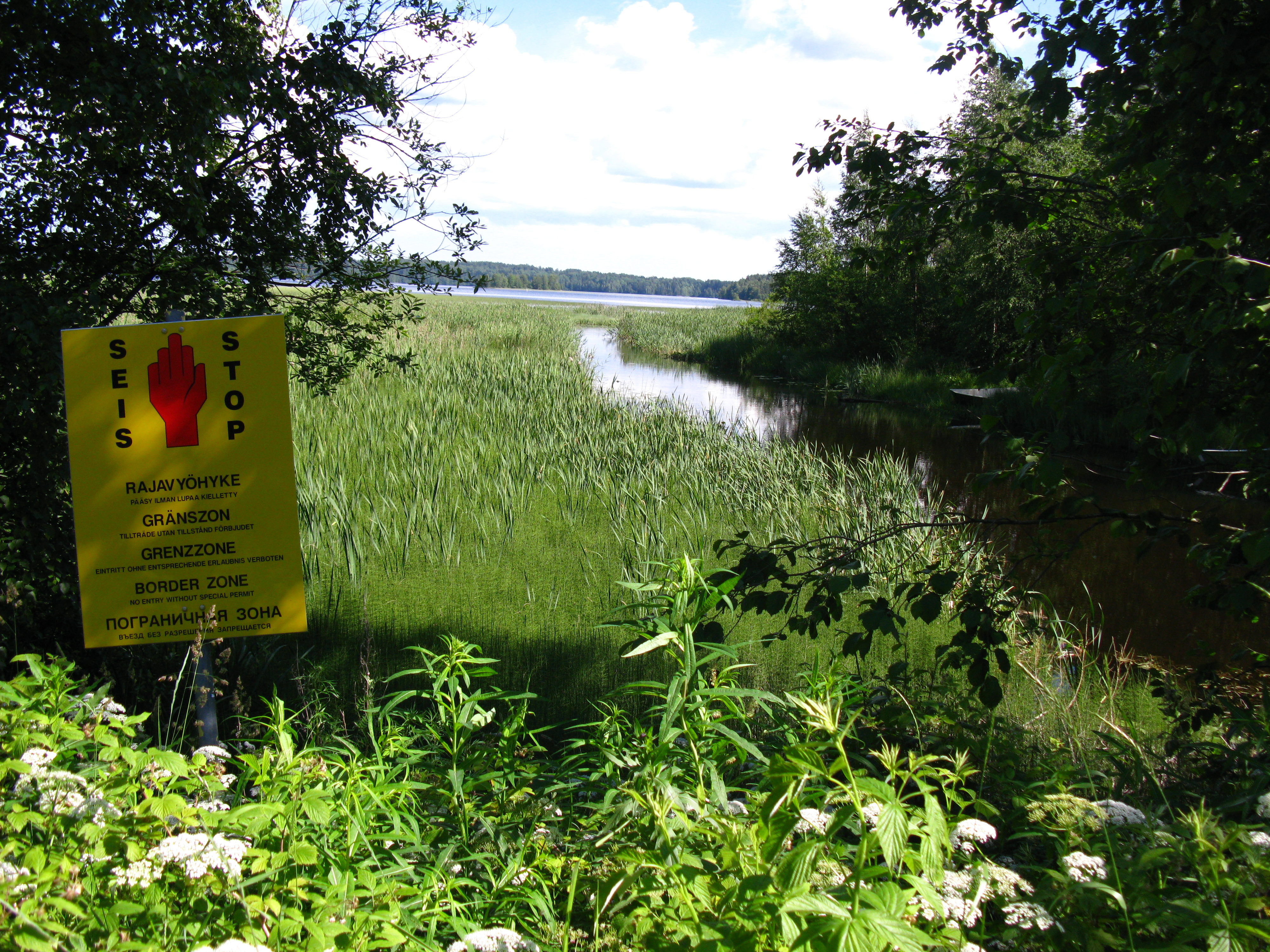 A border zone between Finland and Russia crossing a lake.